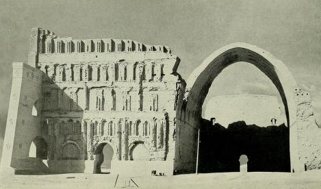 Arch of Ctesiphon